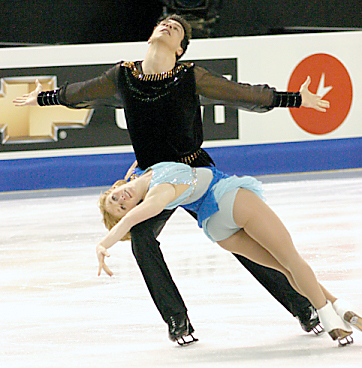 Katie Orscher and Garrett Lucash compete their long program at the 2004 Four Continents Championships in Hamilton, Ontario. Photo by me, Vesperholly 07:54, 17 July 2006 (UTC)